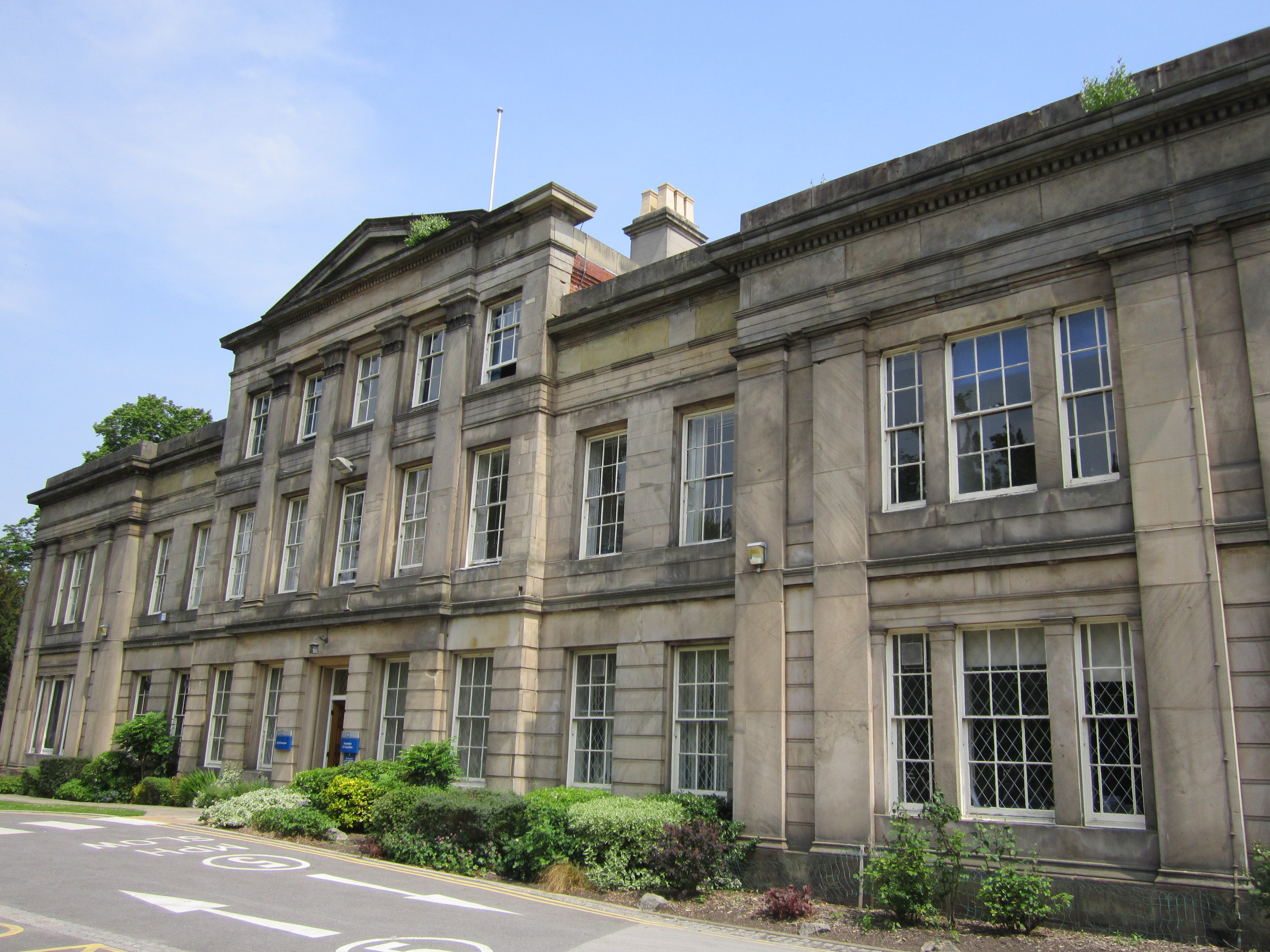 Photo taken at Didsbury Campus, part of Manchester Metropolitan University, England.